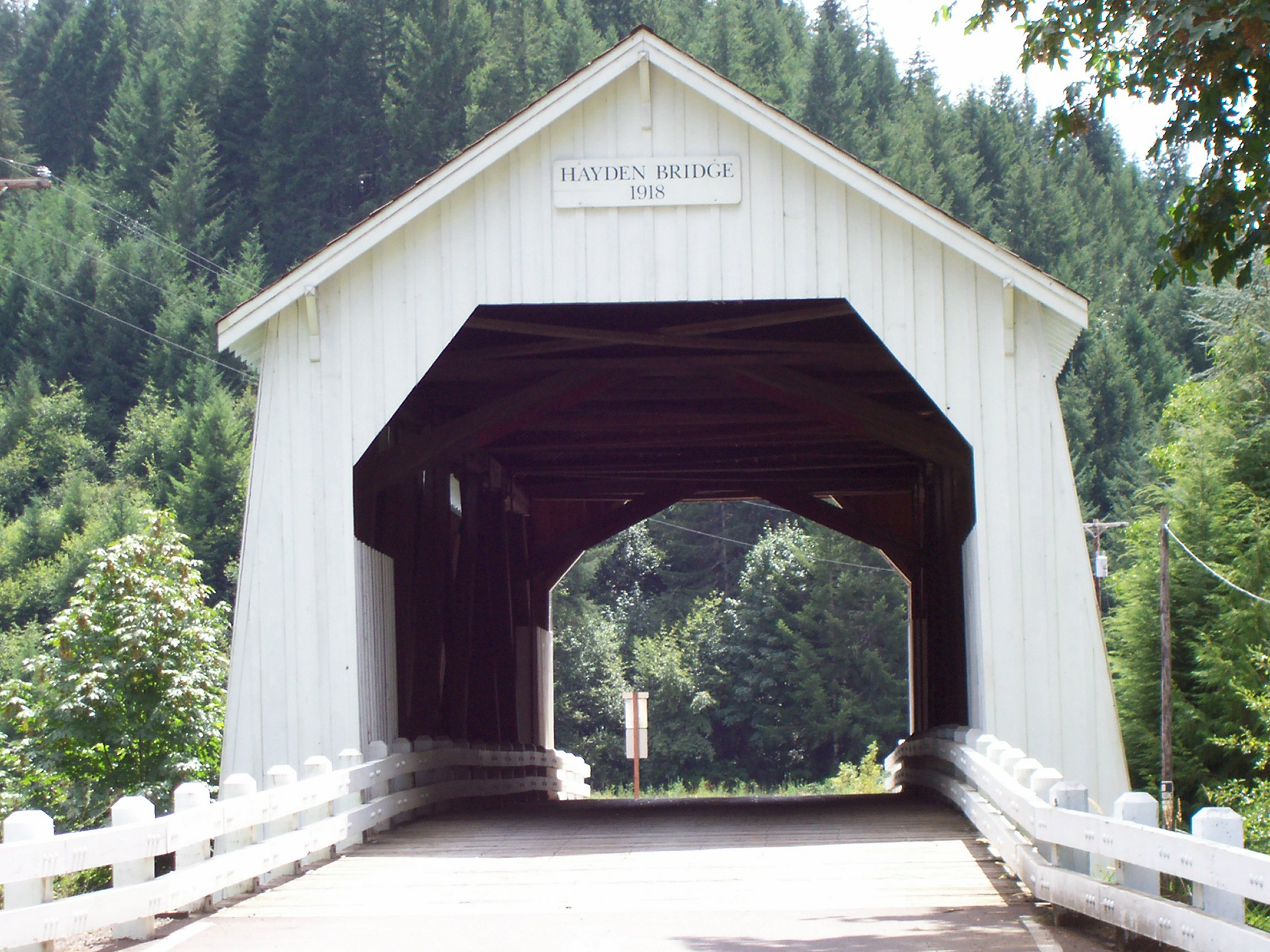 Hayden Bridge in Alsea Oregon. Listed on the National Registor of Historic Places.